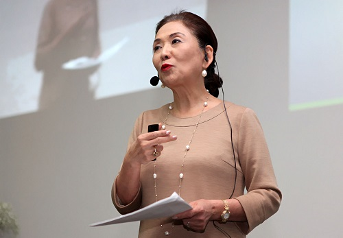 Chieko Aoki